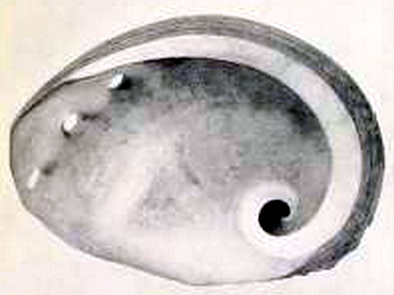 Haliotis dalli Henderson, 1915; family Haliotidae